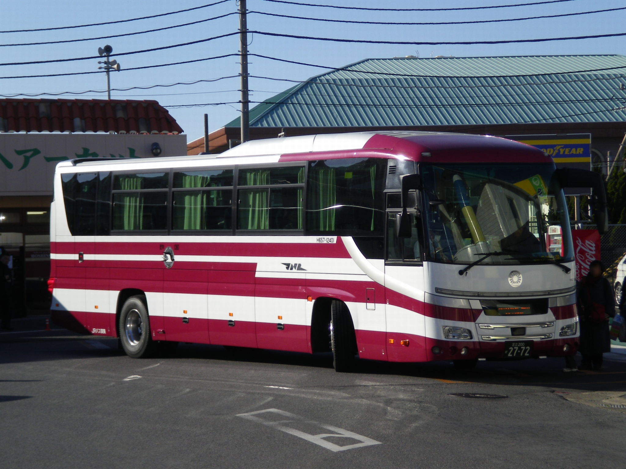 JR Bus Kanto H657-12401. Taken by JR Tateyama Station.